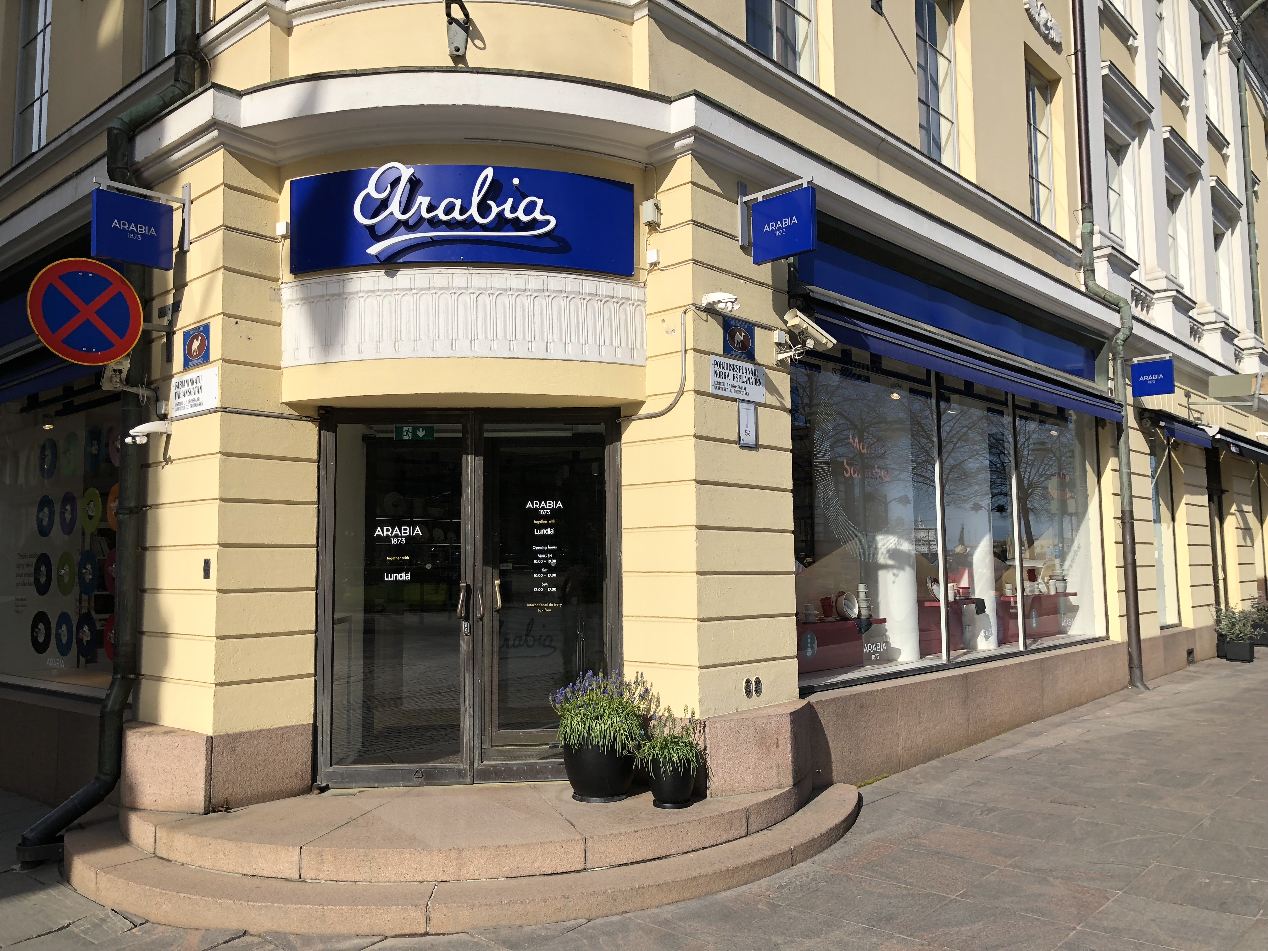 Arabia Store on Pohjoisesplanadi, Helsinki, Finland in May 2018